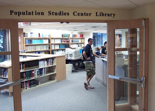 Ronald and Deborah Freedman Library entrance at the Population Studies Center at the University of Michigan. The Freedman Library holds over 45,000 publications, government and U.N. documents, dissertations, working papers, and monographs and supports the research projects of Population Studies Center members with a variety of services.